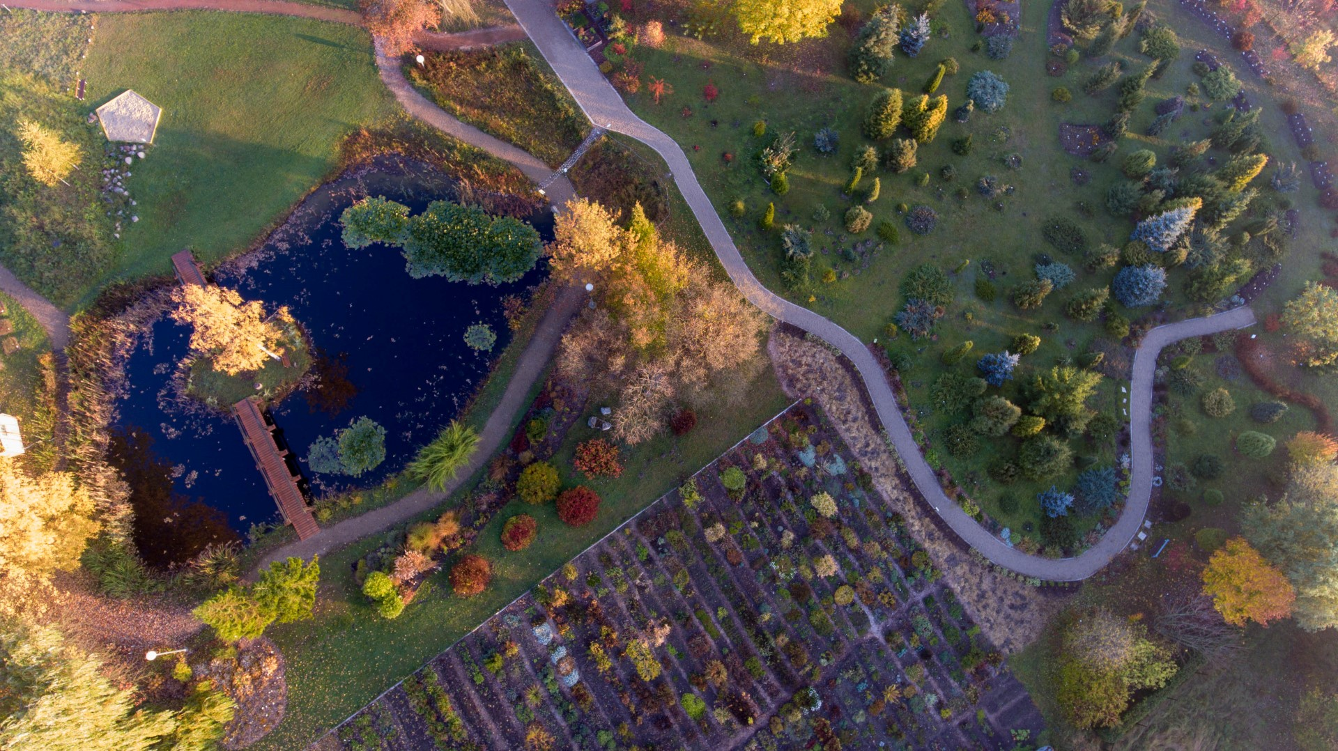 Siauliai university Botanical Garden, Lithuania